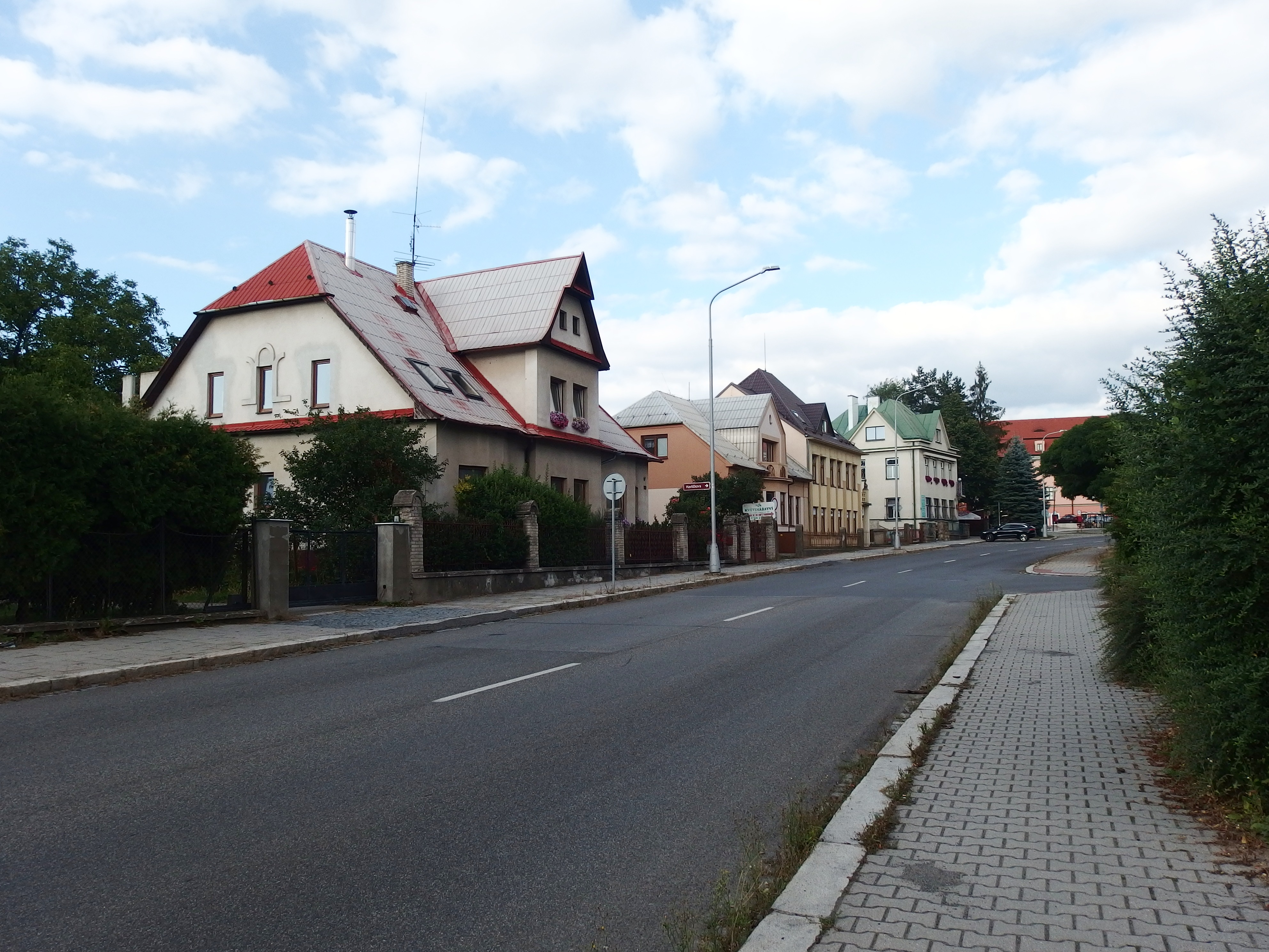 Valašské Meziříčí, Vsetín District, Czech Republic.